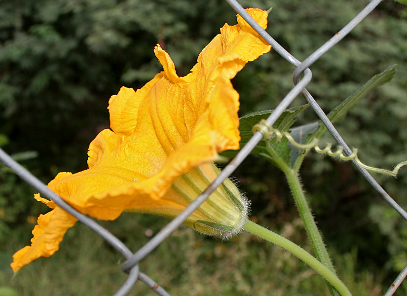 Cucurbita maxima - Winter Squash, Winter Pumpkin, Buttercup Squash- at Deer Park in Shamirpet, Rangareddy district, Andhra Pradesh, India.